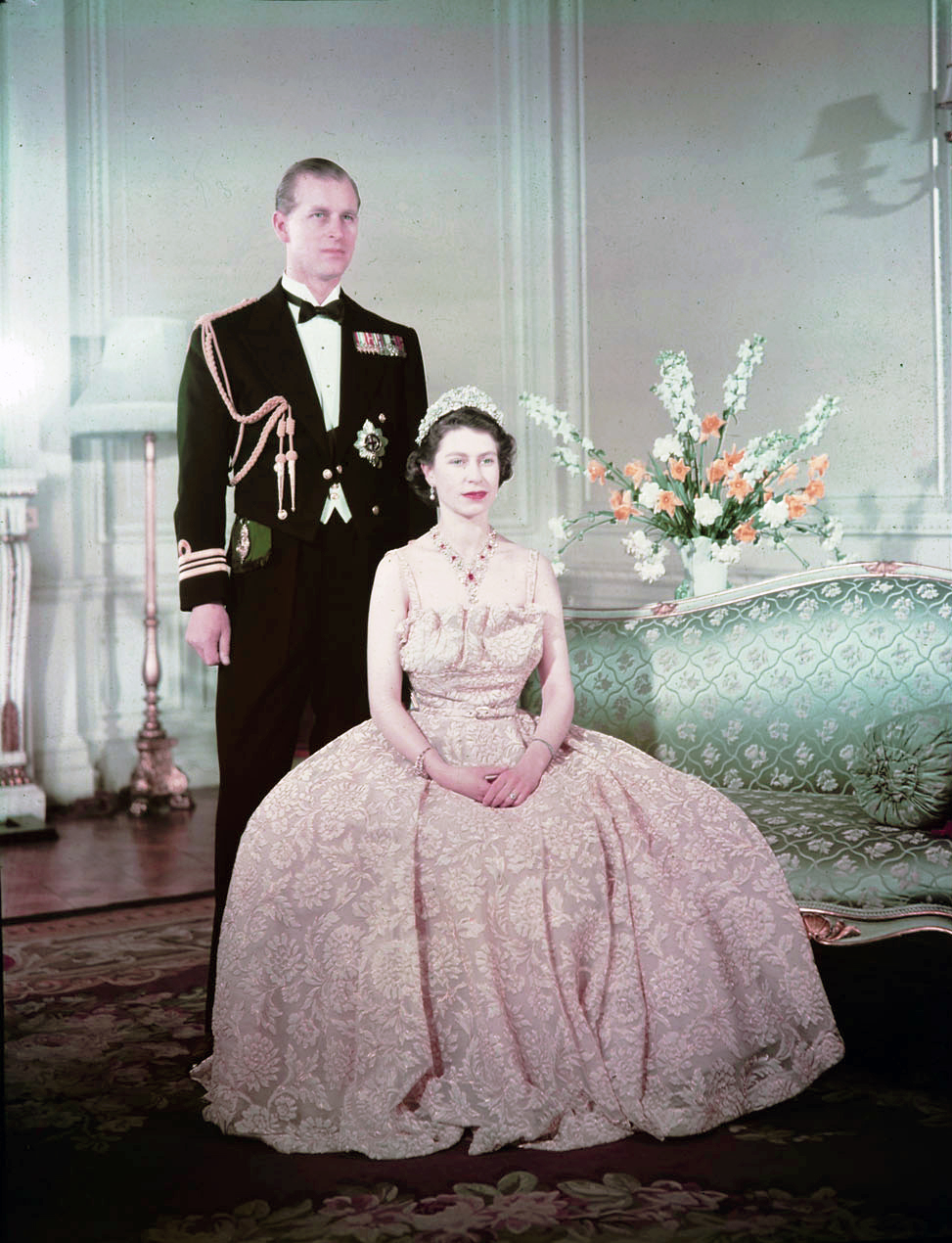 Princess Elizabeth, Duchess of Edinburgh (later Queen Elizabeth II) and the Duke of Edinburgh in 1950